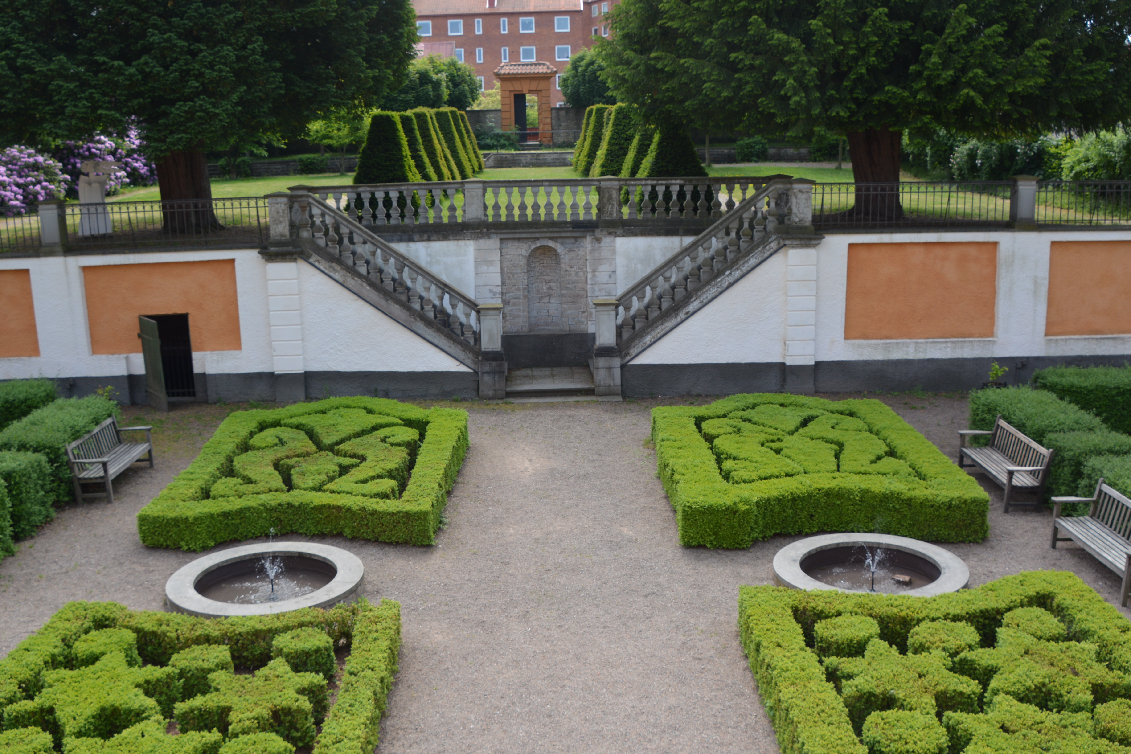 Barockträdgården på Grevagården i Karlskrona, av Sven Hermelin